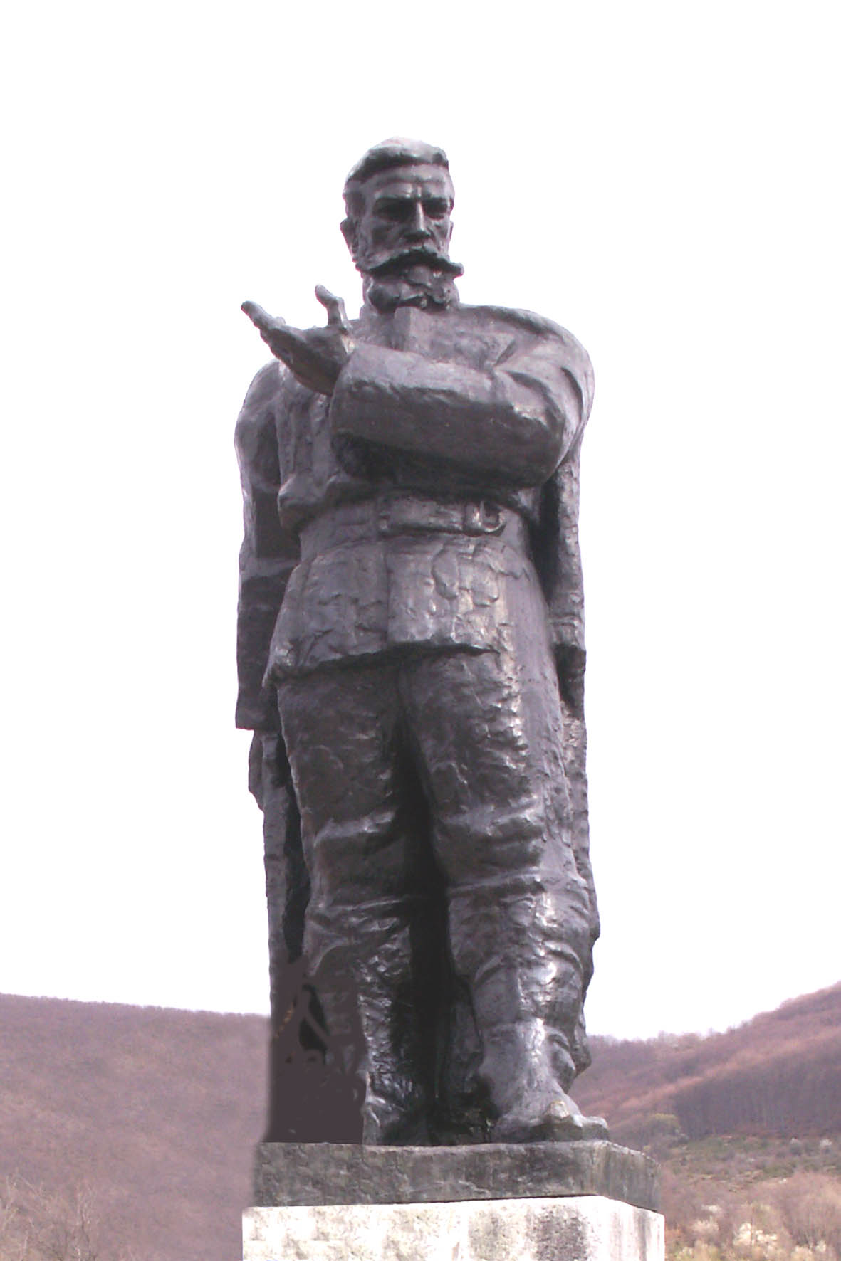 Dame_gruev.